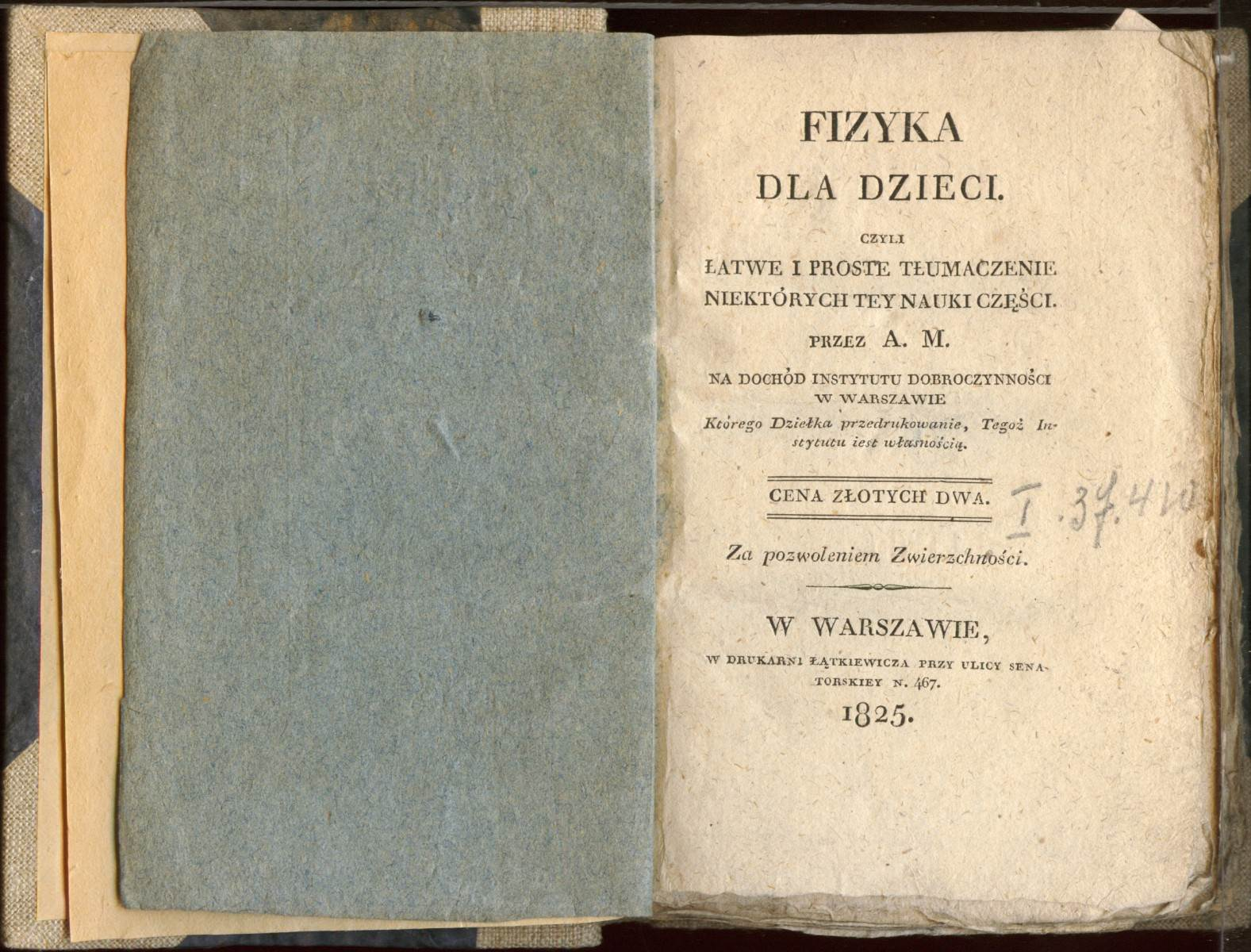 Fist page of the first edition of the book "Physics for children" by Antoni Magier